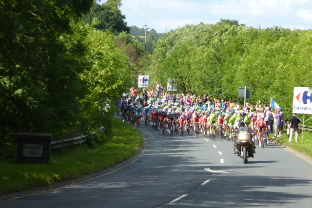 Approaching cyclists